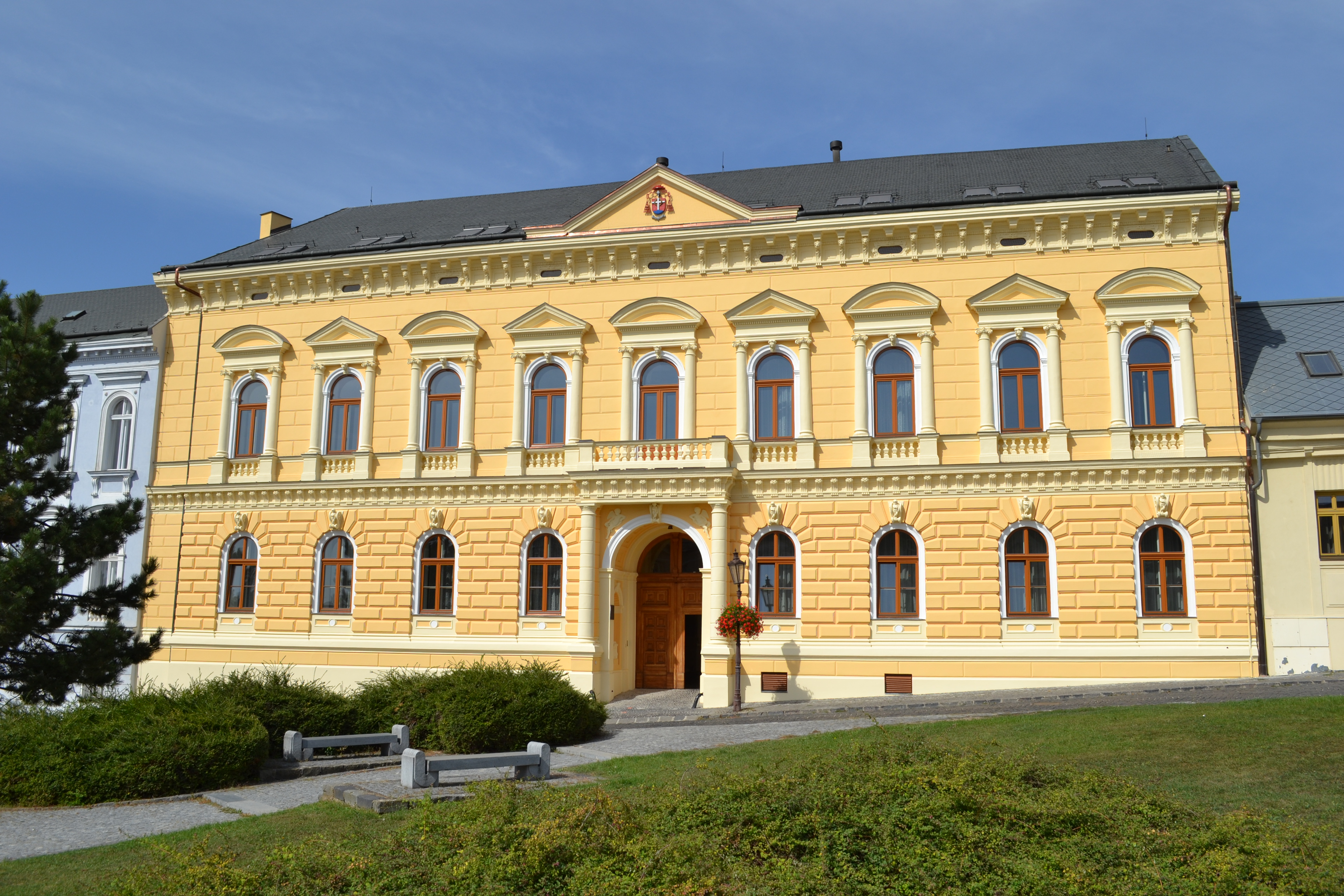 St. Gorazd Seminary in NitraSlovenčina: Seminár sv. Gorazda v Nitre